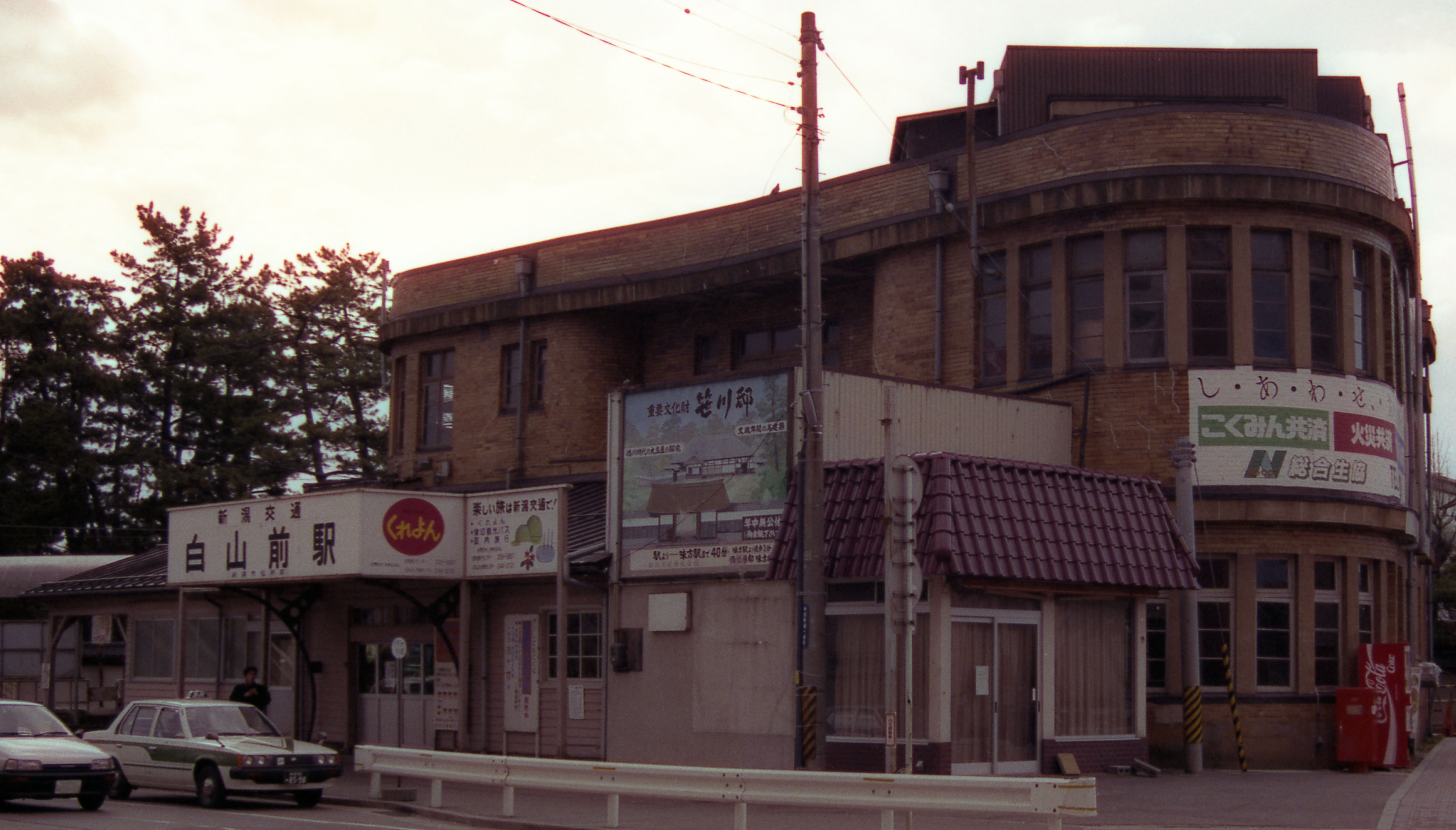 The building of Hakusanmae Station,Niigata Kotsu Railway(before abolished)